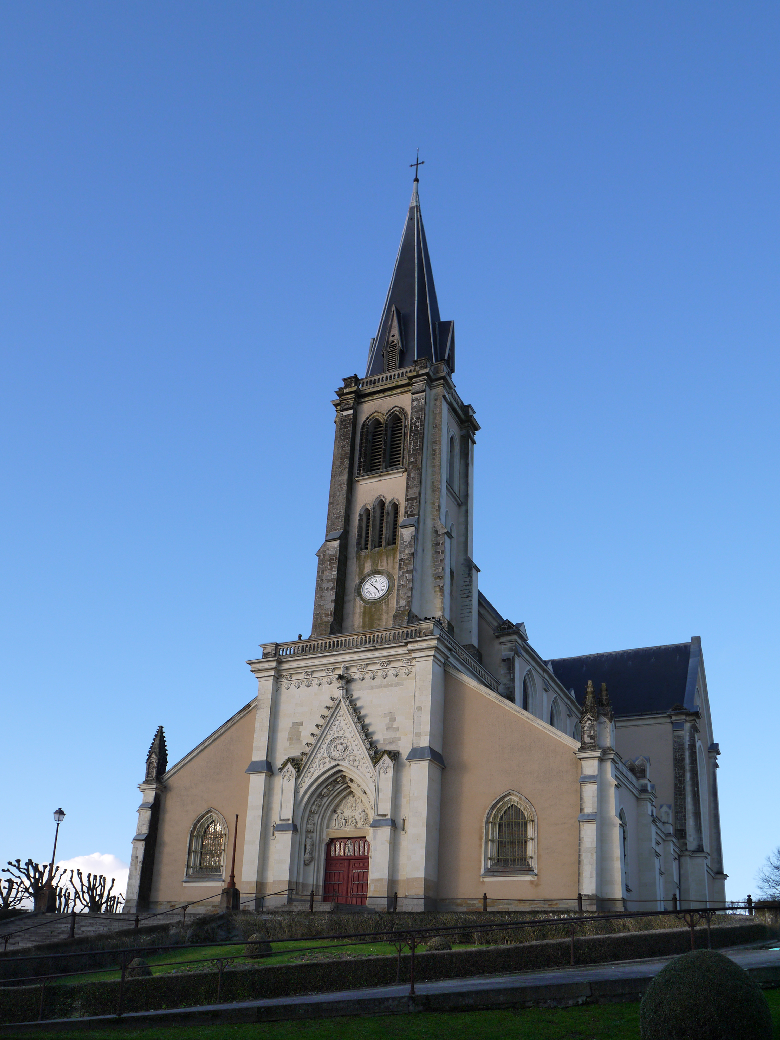 L'église vue de la rue Neuve